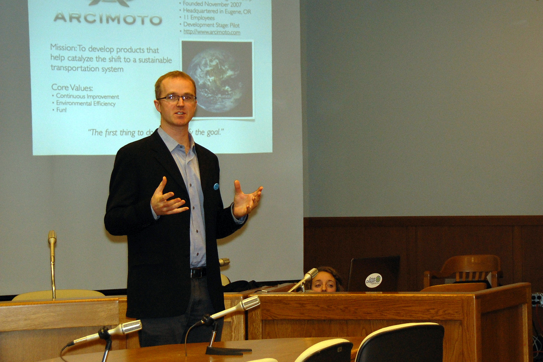 Mark Frohnmayer of Acrimoto (and an Oregon Transportation Commissioner) speaks about electric vehicles. Photo courtesy Oregon Environmental Council